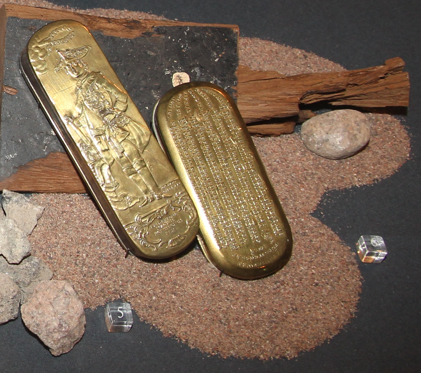 Brass tobacco box (left) from Germany and a brass calendar box from Skultuna, Sweden from 1787 in Forum Marinum maritime museum.